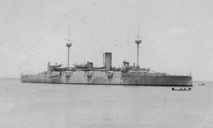 The Protected Cruiser USS Charleston, Public domain photo from history.navy.mil